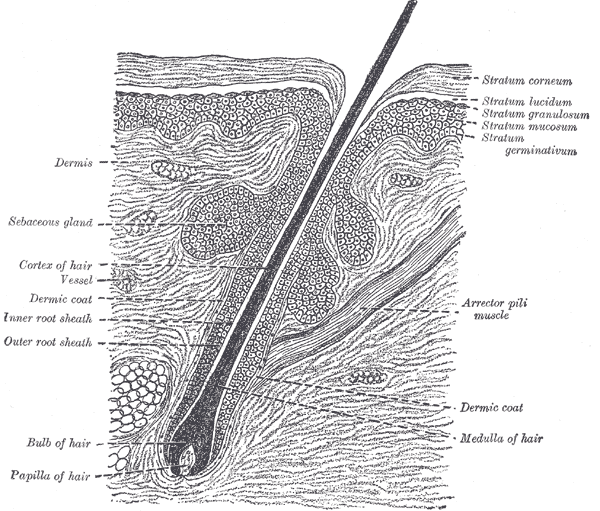 Section of skin, showing the epidermis and dermis; a hair in its follicle; the Arrector pili muscle; sebaceous glands.